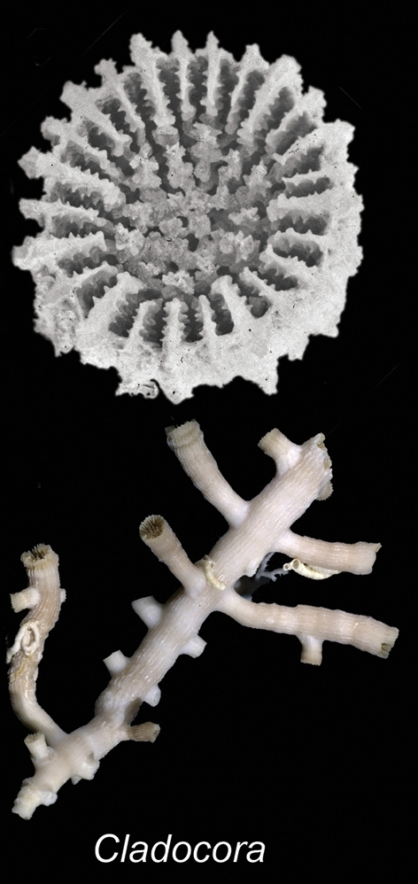 Cut-outs from original files: Recent_azooxanthellate_Scleractinia_(Cnidaria,_Anthozoa)_-_ZooKeys-227-001-g001 - 023